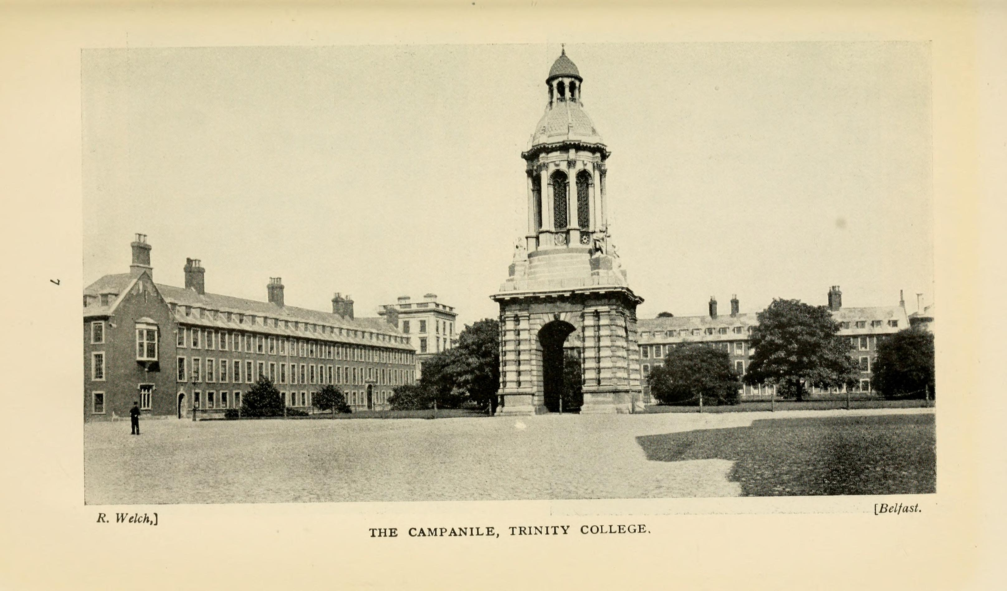 Campanile, Trinity College, Dublin Title: A pictorial and descriptive guide to Dublin and the Wicklow tours .. Year: 1919 (1910s) Authors: Ward, Lock and Company, ltd Subjects: Publisher: London Text Appearing Before Image: , a copy of the FourGospels dating from the seventh century, elaborately andexquisitely illuminated, perhaps the most beautiful book inthe world ; the introductory pages, the capital letters atthe commencement of each book, and also at the beginningof every chapter and verse, exceed in splendour of designanything which can be seen elsewhere. Here too may beseen, amongst other treasures, the Book of Burrow, and theembossed leather case of the ninth-century Book of Armagh.On the wall hangs the roll of the famous independent IrishParliament; Grattans signature is the last but one. Thesignatures of Parnell (grandfather of Charles Stewart Par-nell). Lord Edward Fitzgerald, and many other famous menare here. The other exhibits include first-folio editions of Shake-speare, and of Spensers Faerie Queen ; finely illuminatedaddresses to the University on the occasion of its threehundredth anniversary; specimens of old Irish broochesand other ornaments, and of the ancient Ogham form ofwriting. g Text Appearing After Image: '